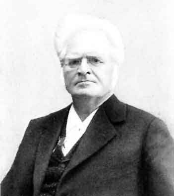 Björnstjerne Björnson. From a photograph taken in 1901. Björnson gave a tea-party at his daughter's house in Passy, and invited us. I hoped that possibly Alfred Dreyfus might be there, but he was not. However, I had the pleasure of seeing Colonel Picquard again, and we had a long talk together. Afterward, when I bade Björnson good-by, he stooped down and kissed me on my forehead before the roomful of people. Imagine my embarrassment at this unexpected and gratuitous token of friendship, but, the kisser being Björnson, every one knew that the accolade was merely the outpouring of a kind and good heart.